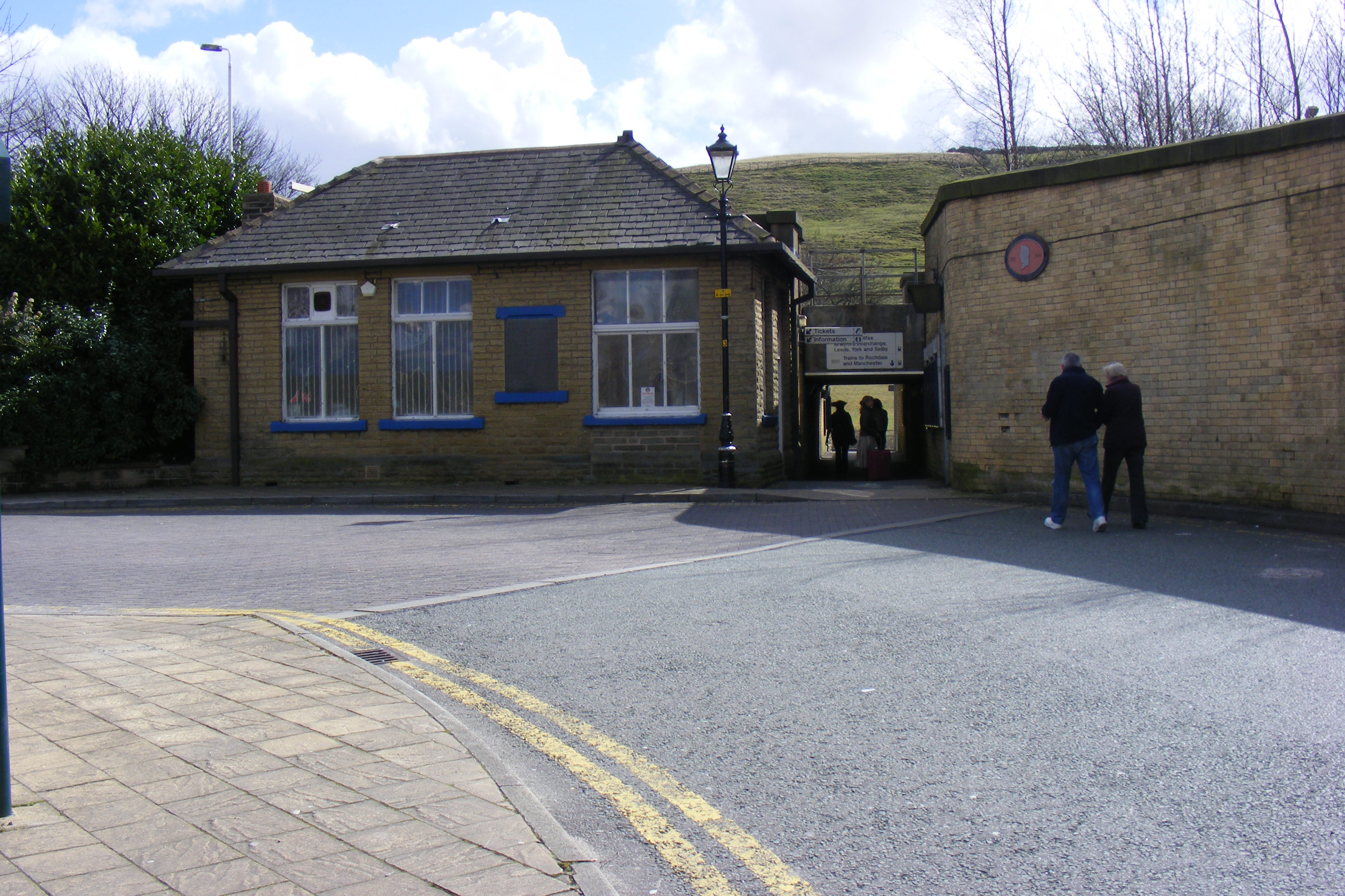 Littleborough railway station entrance, in Littleborough, Greater Manchester, England.